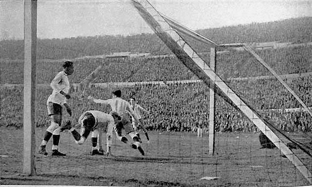 Argentina's 2nd goal at the 1930 FIFA World Cup final v. Uruguay, scored by Guillermo Stábile